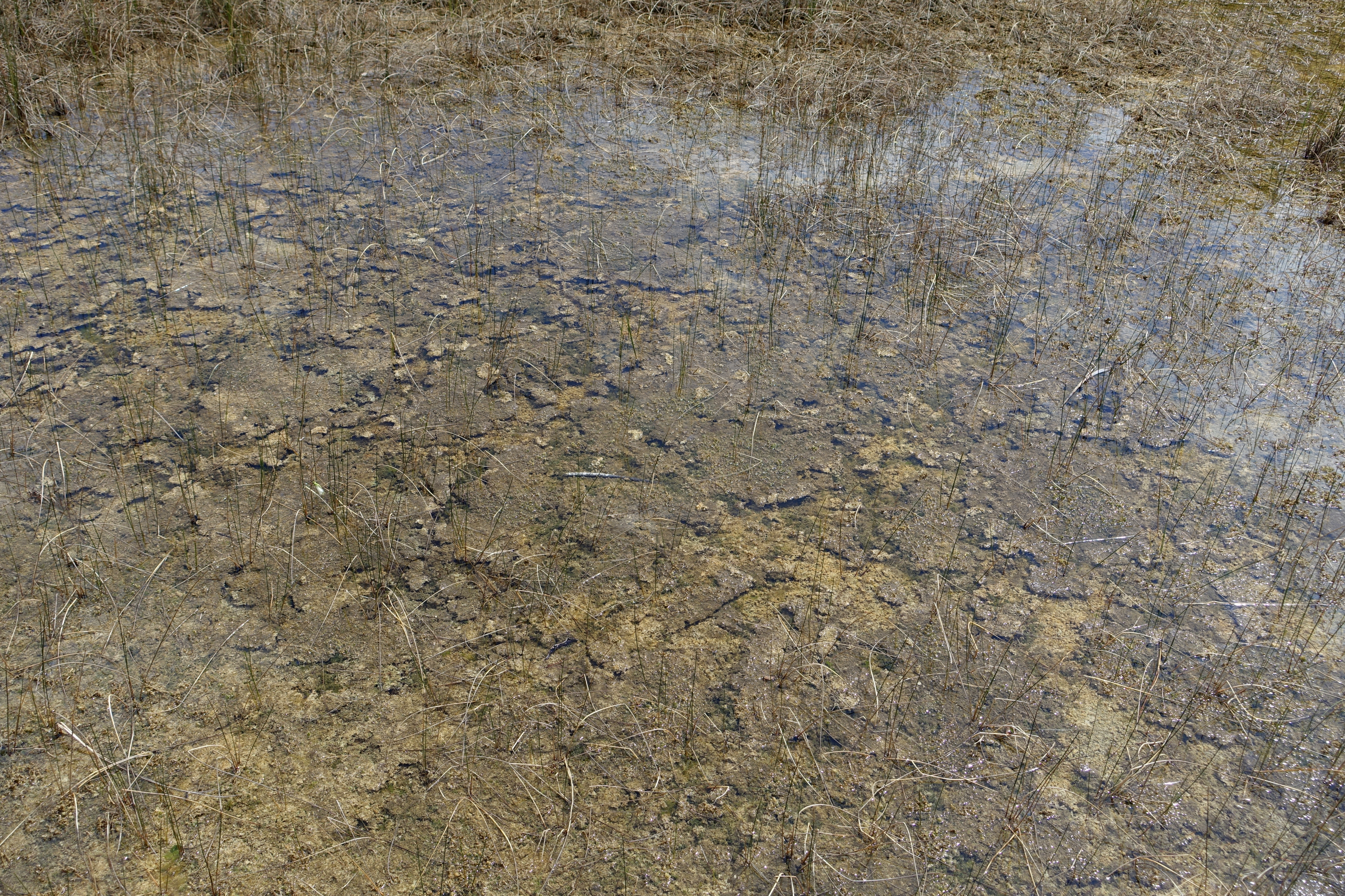 Everglades National Park - Florida, USA.